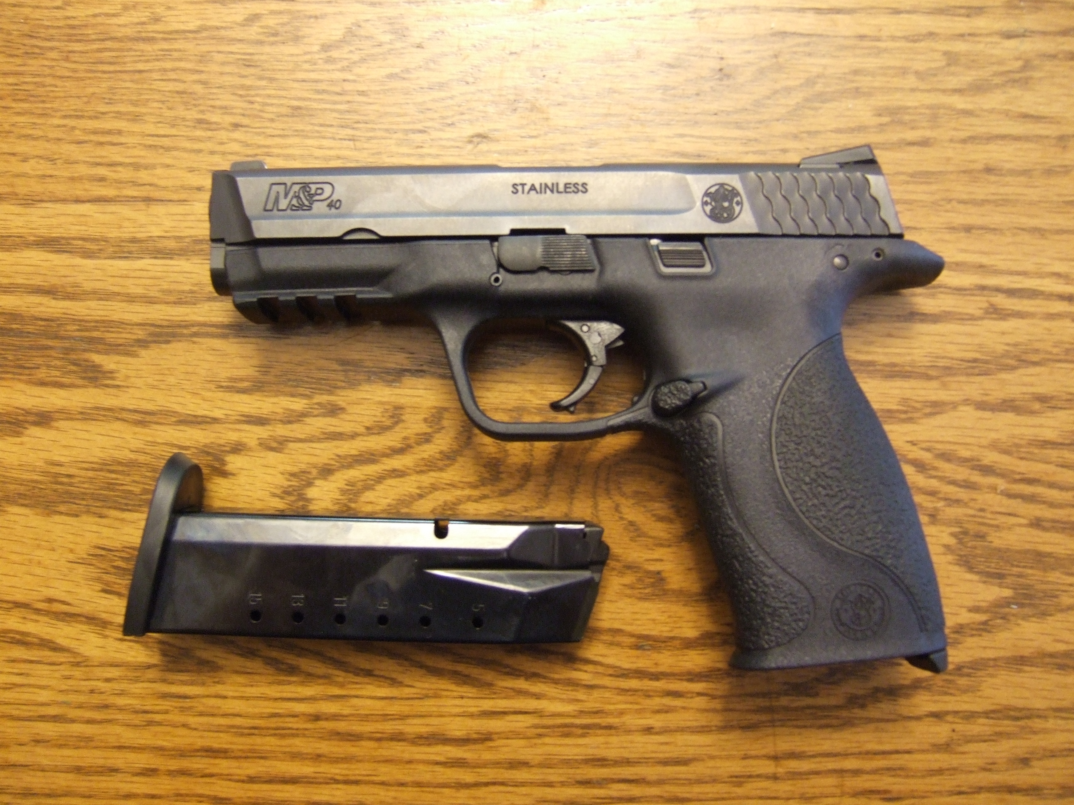 A Smith & Wesson Military & Police handgun chambered in .40 S&W.